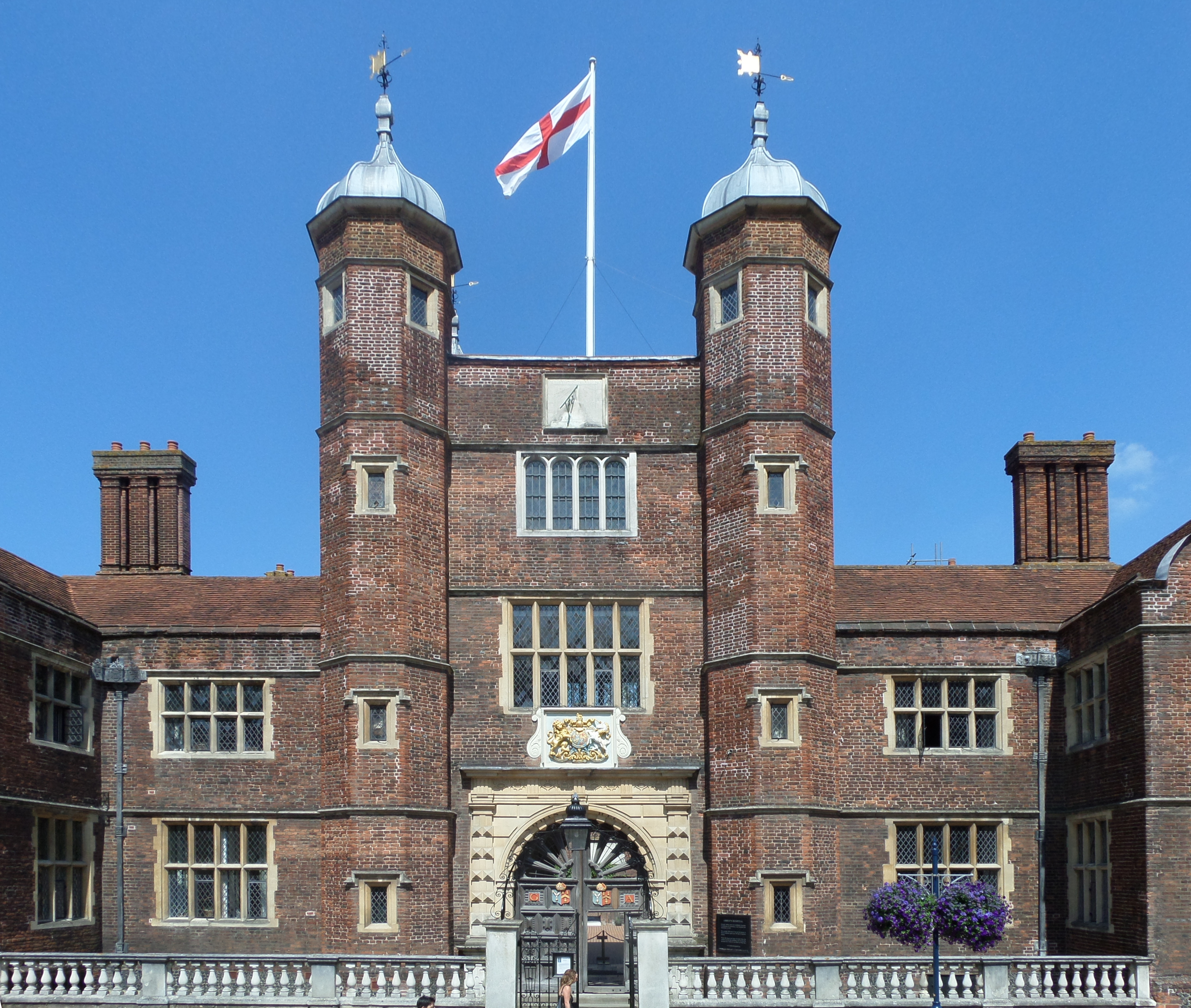 Abbot Hospital, Guildford. Founded in 1619 by George Abbot, Archbishop of Canterbury as a gift "out of my love to the place of my birth".